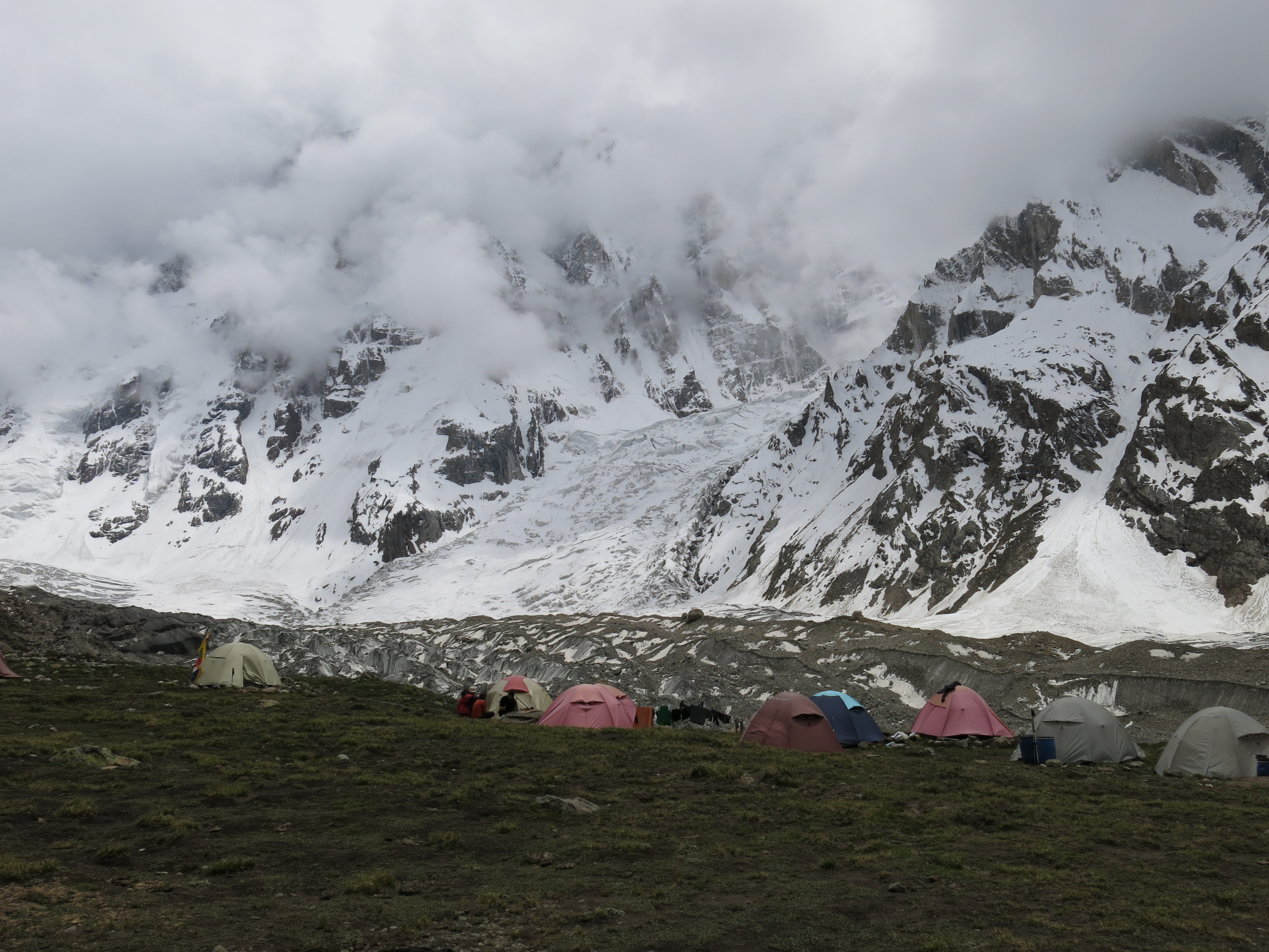 Nanga Parbat Base Camp Diamir glacier